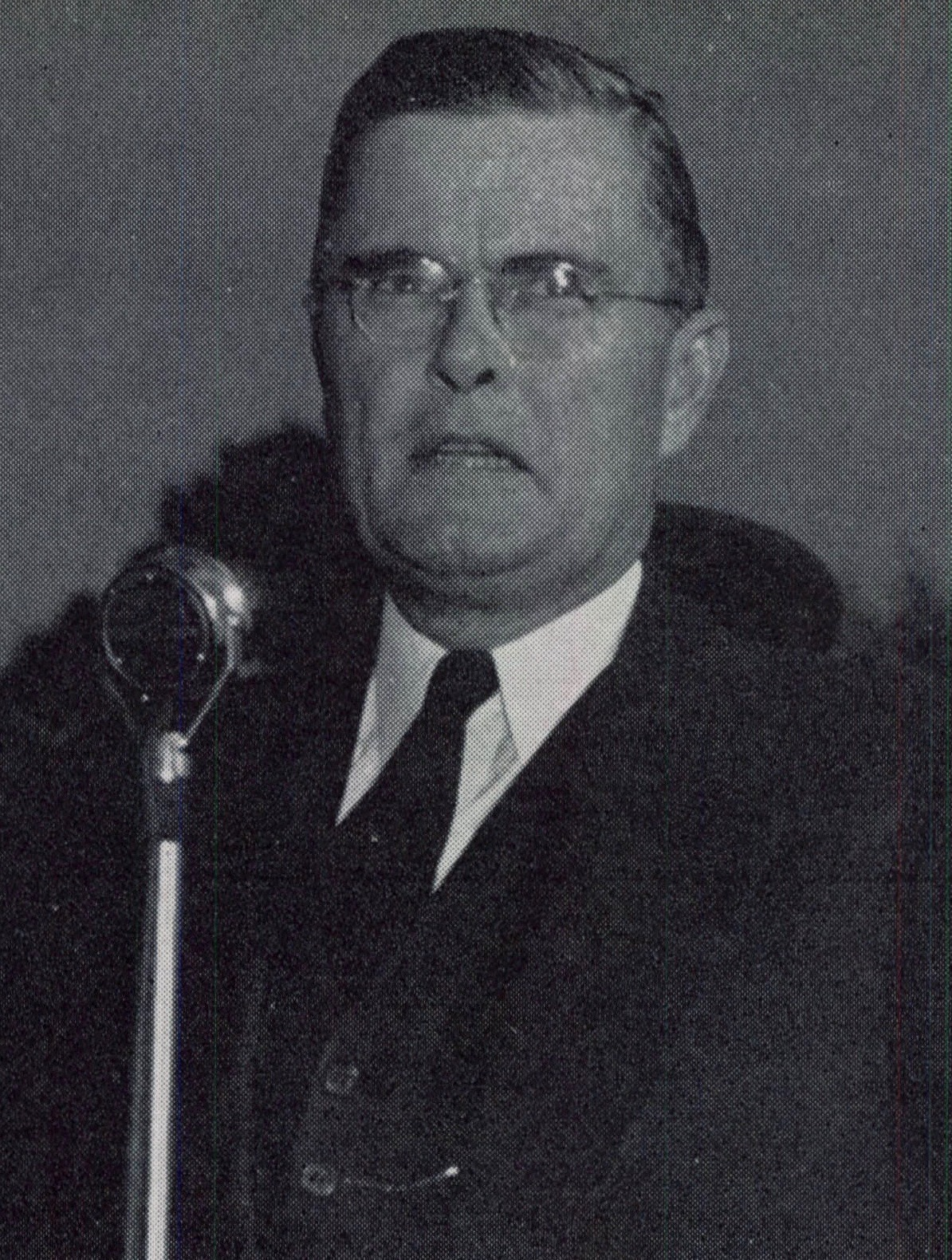 Frank M. Dixon as he appears in the 1942 Glomerata of Auburn University. Original caption: Governor Dixon, our friend and supporter.